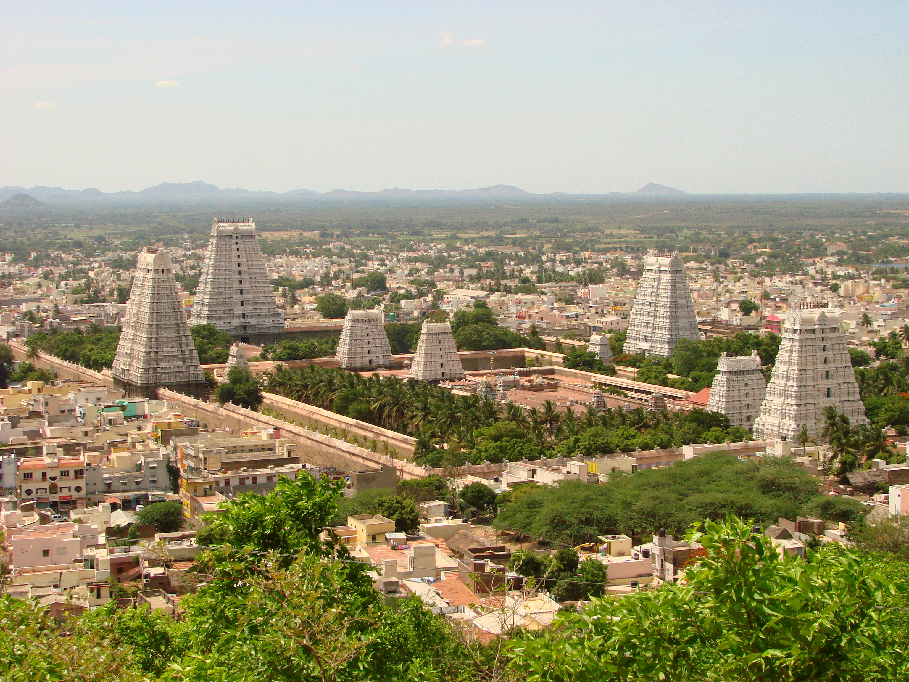 View over Arunchaleshvara Temple from the Red Mountain, Tiruvannamalai, India. July 2008.